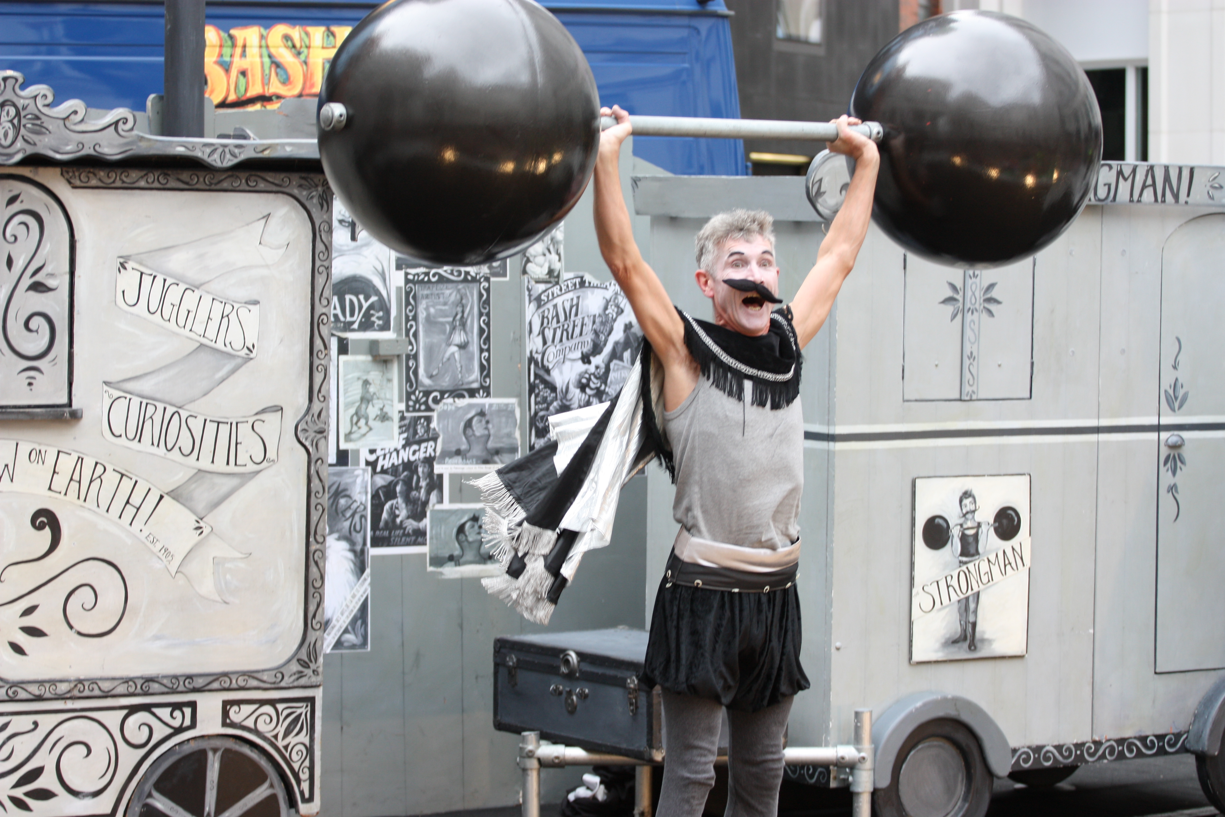 Bash Street Theatre, The Strongman, opening night of Festival of Fools, St Anne's Square, Belfast, May 2013